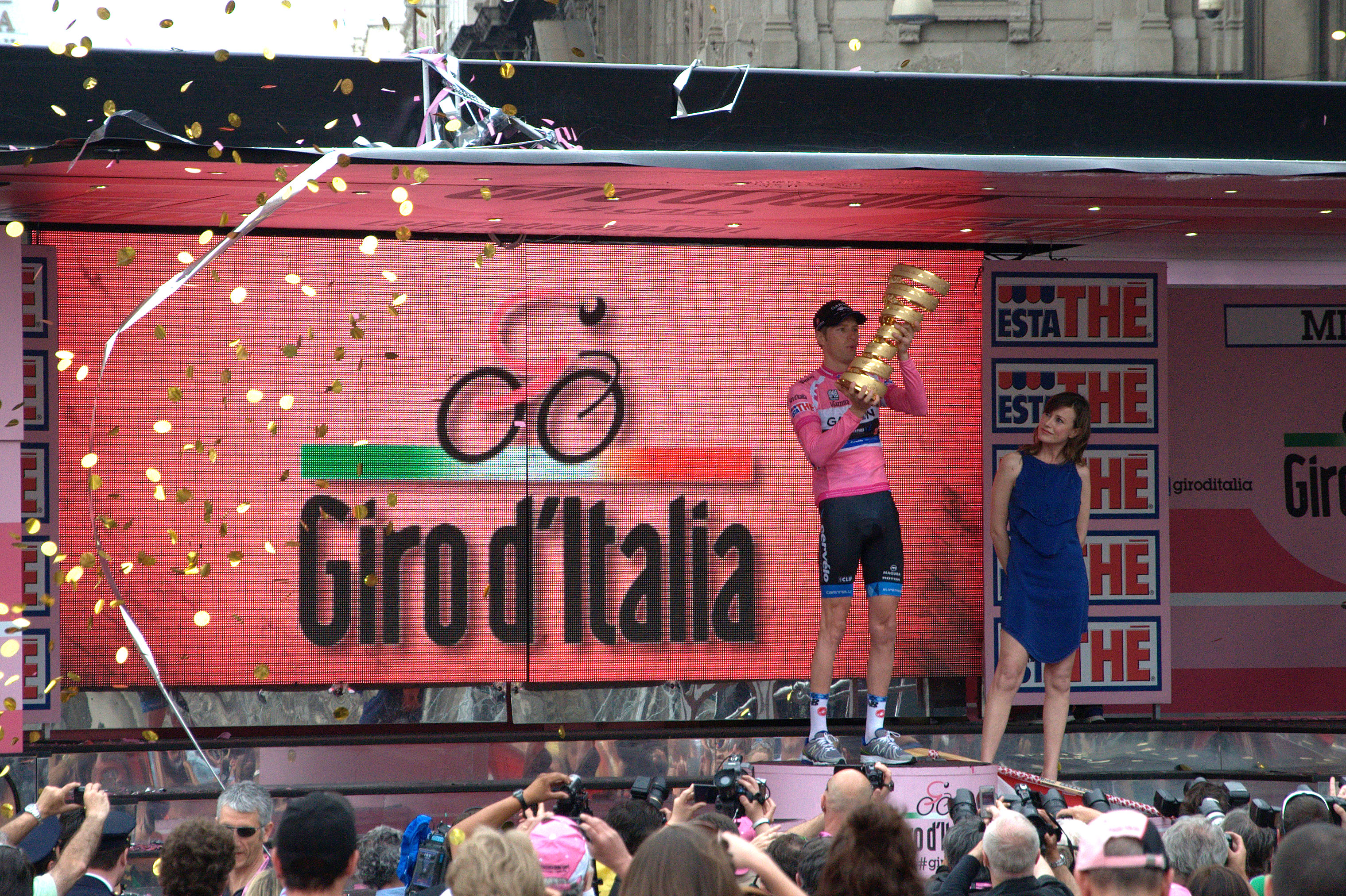 Hesjedal celebrating the overall classification win of Giro d'Italia 2012